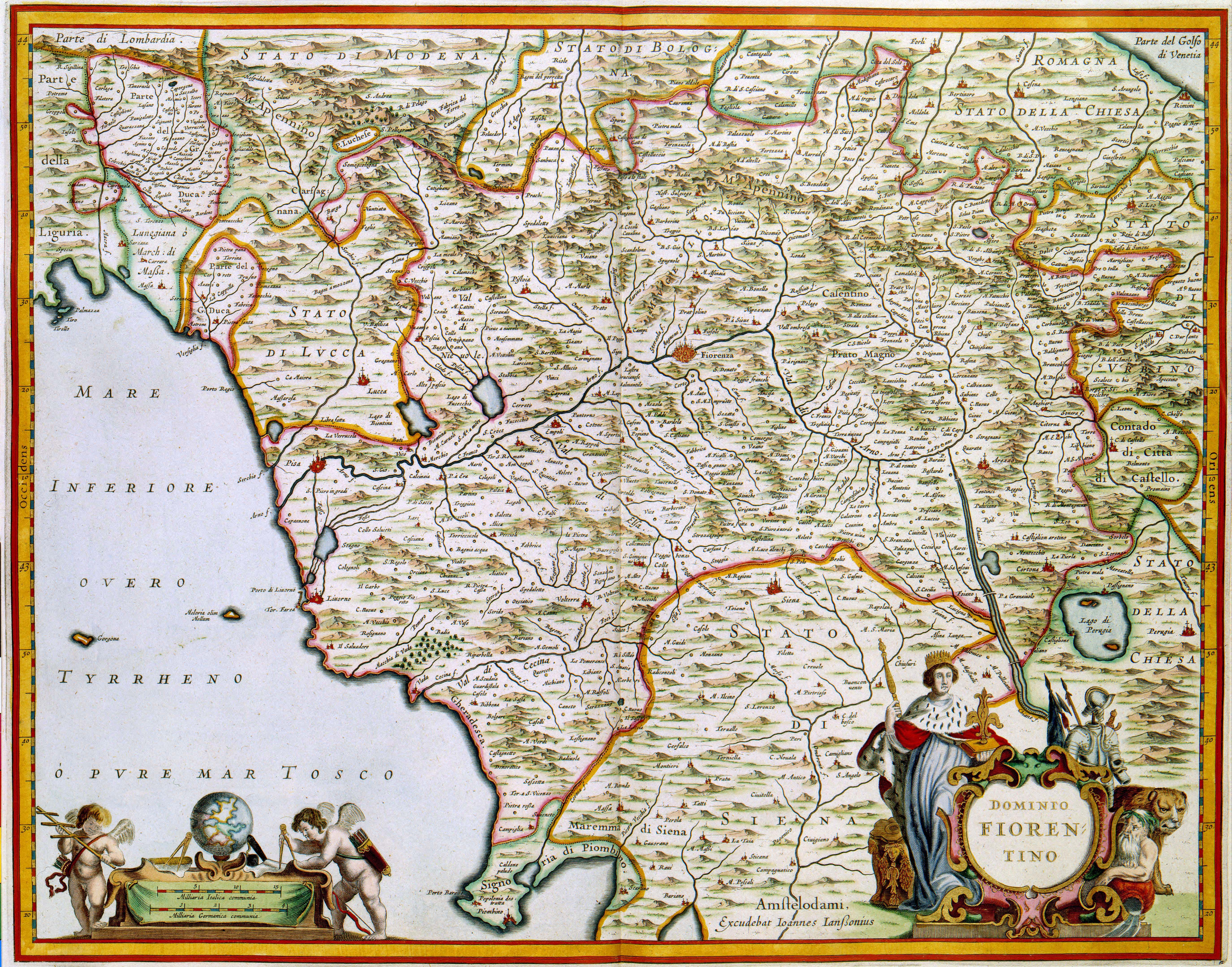 This map of Toscane was published in 1635 by Jan Janssonius (1588-1664).